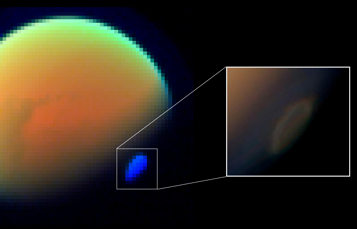 Spectral Map of Titan with Polar Vortex October 1, 2014 These two views of Saturn's moon Titan show the southern polar vortex, a huge, swirling cloud that was first observed by NASA's Cassini spacecraft in 2012. The view at left is a spectral map of Titan obtained with the Cassini Visual and Infrared Mapping Spectrometer (VIMS) on Nov. 29, 2012. The inset image is a natural-color close-up of the polar vortex taken by Cassini's wide-angle camera (part of the view previously released as PIA14925). Three distinct components are evident in the VIMS image, represented by different colors: the surface of Titan (orange, near center), atmospheric haze along the limb (light green, at top) and the polar vortex (blue, at lower left). To the VIMS instrument, the spectrum of the southern polar vortex shows a remarkable difference with respect to other portions of Titan's atmosphere: a signature of frozen hydrogen cyanide molecules (HCN). This discovery has suggested to researchers that the atmosphere of Titan's southern hemisphere is cooling much faster than expected. Observing seasonal shifts like this in the moon's climate is a major goal for Cassini's current extended mission. The Cassini-Huygens mission is a cooperative project of NASA, the European Space Agency and the Italian Space Agency. JPL manages the mission for NASA's Science Mission Directorate, Washington. The California Institute of Technology in Pasadena manages JPL for NASA. The VIMS team is based at the University of Arizona in Tucson. The Cassini orbiter and its two onboard cameras were designed, developed and assembled at JPL. The imaging operations center is based at the Space Science Institute in Boulder, Colo. For more information about the Cassini-Huygens mission visit and The Cassini imaging team homepage is at The VIMS image was processed by Remco de Kok.